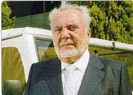 Hipólito Pires entrepeneur and founder of SEMAL